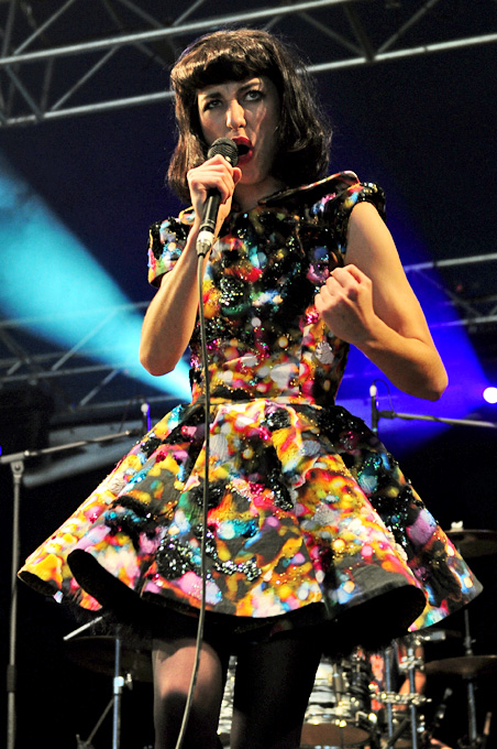 Parklife Festival 2011